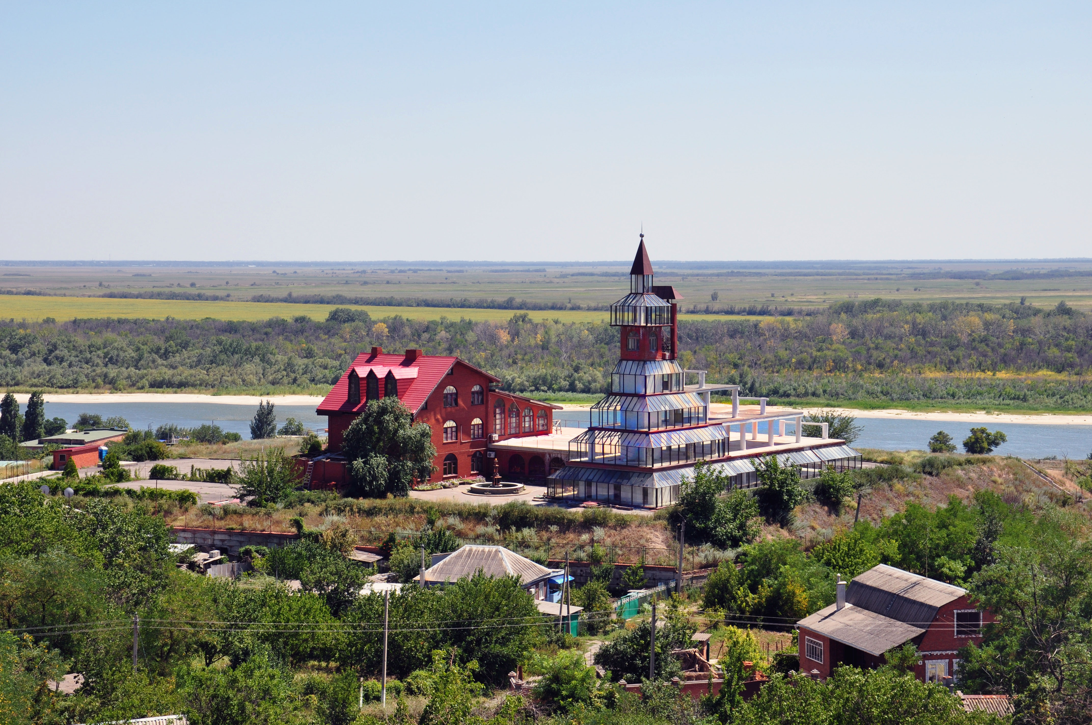 Bowery Puhlyakovsky Ust-Donetsk district, Rostov region, Russia